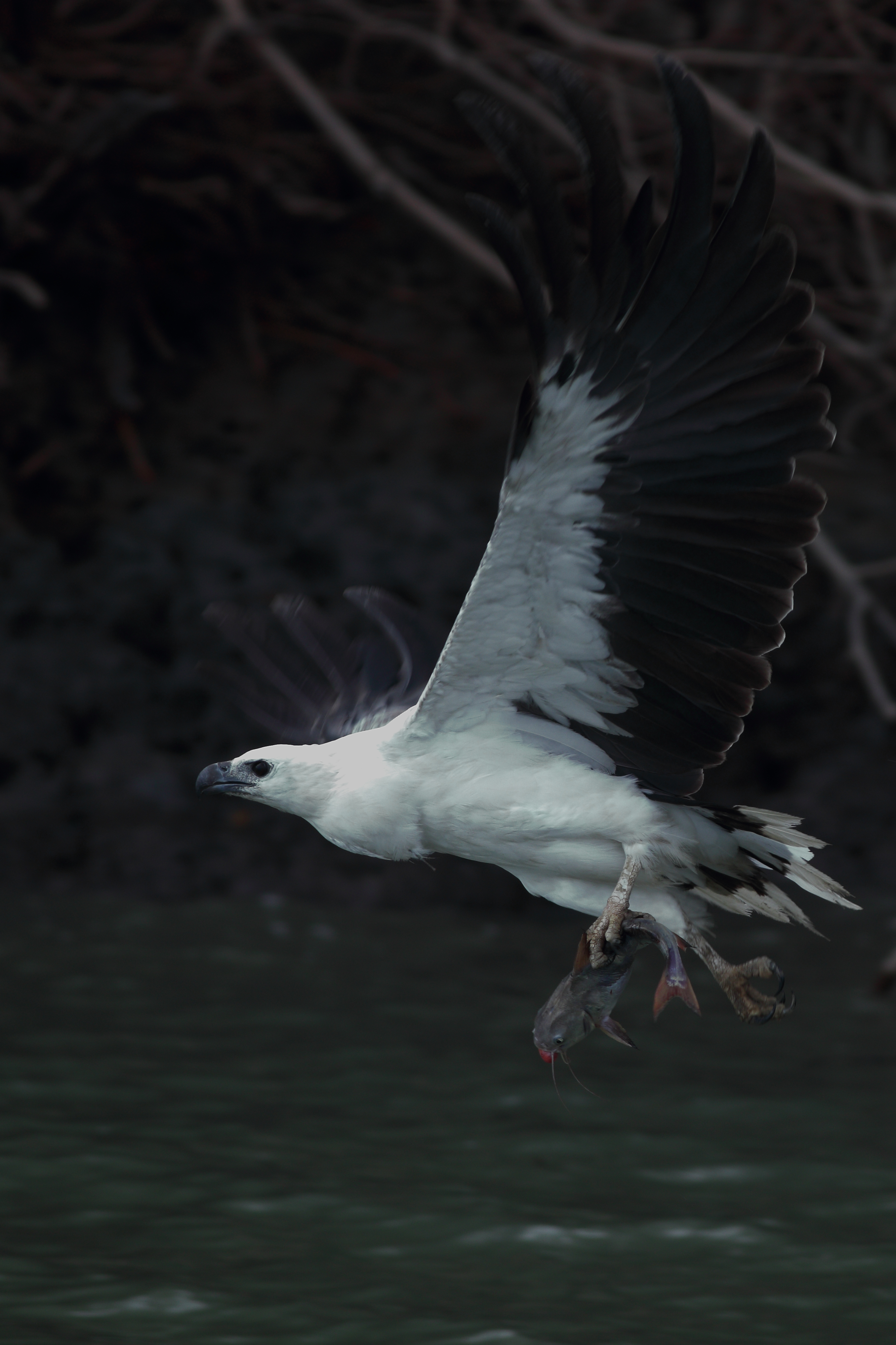 White-bellied Sea Eagle Sundarban West Bengal August 2019.